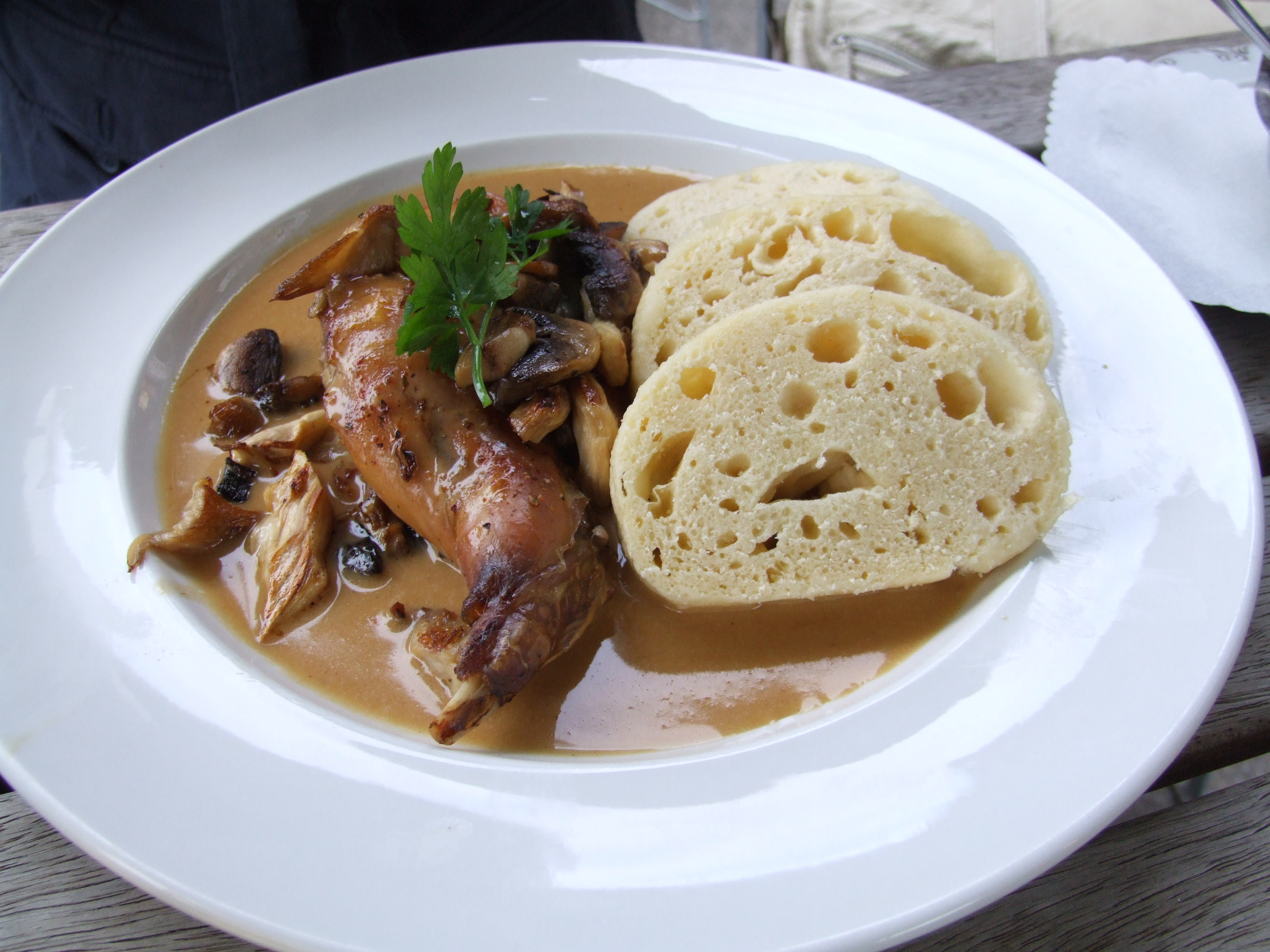 Rabbit leg with gravy and Bohemian dumplings